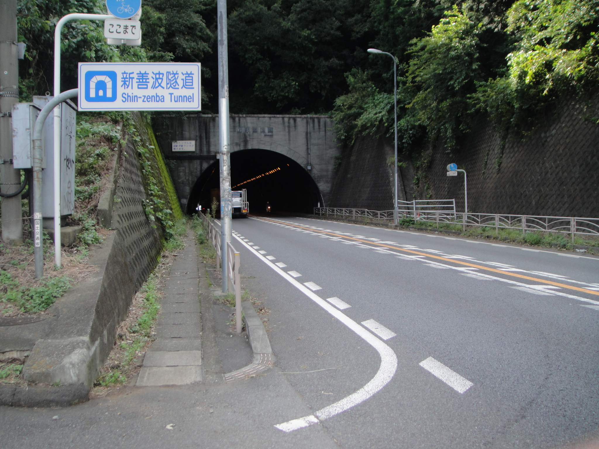 Shin-zenba-tunnel in Isehara, Kanagawa